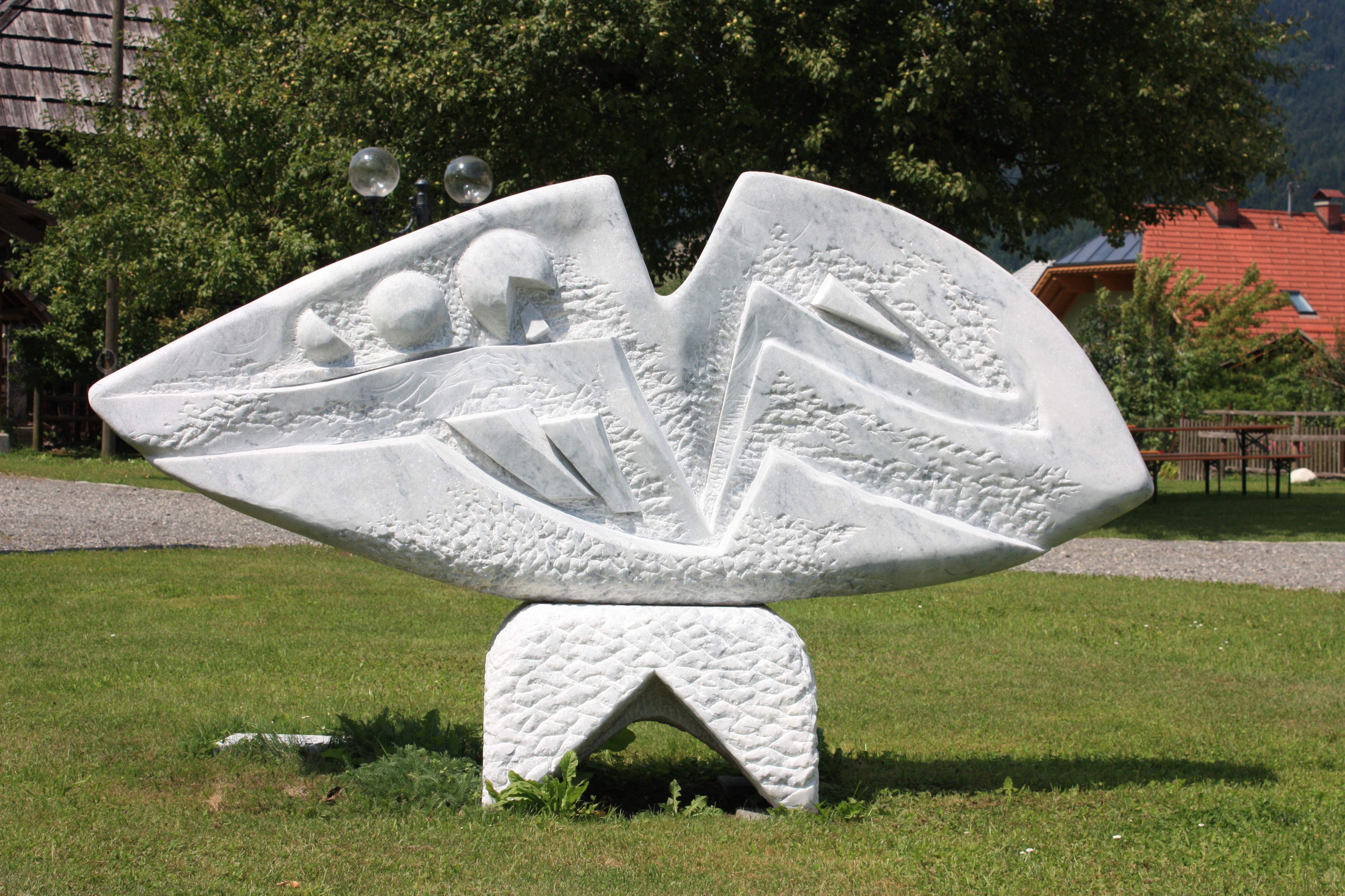 Möderndorf Castle - sculpture - "Wings of Time" Creator: H. Unterberger Locality: Möderndorf Community:Hermagor